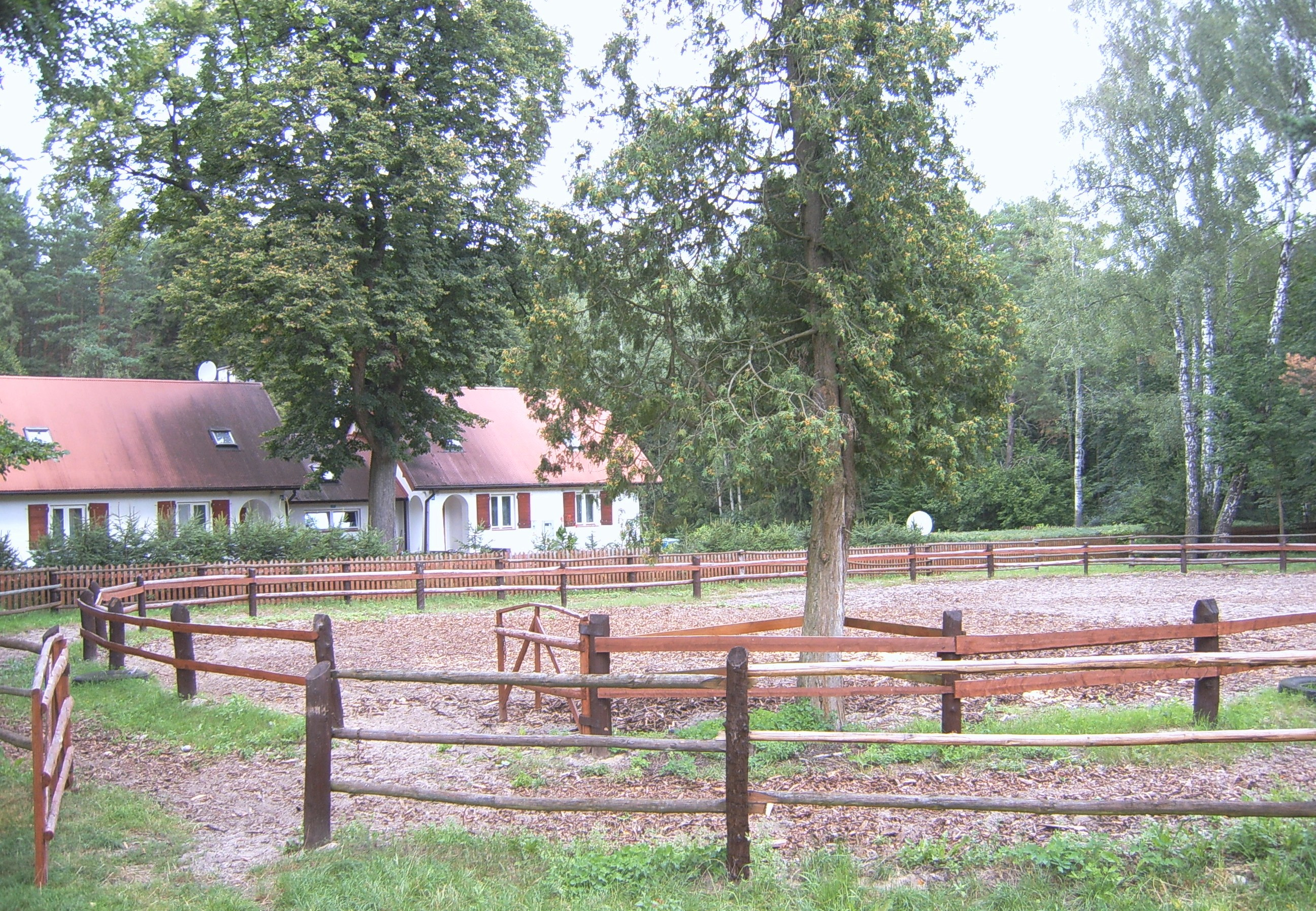 Florianka, Roztoczański National Park